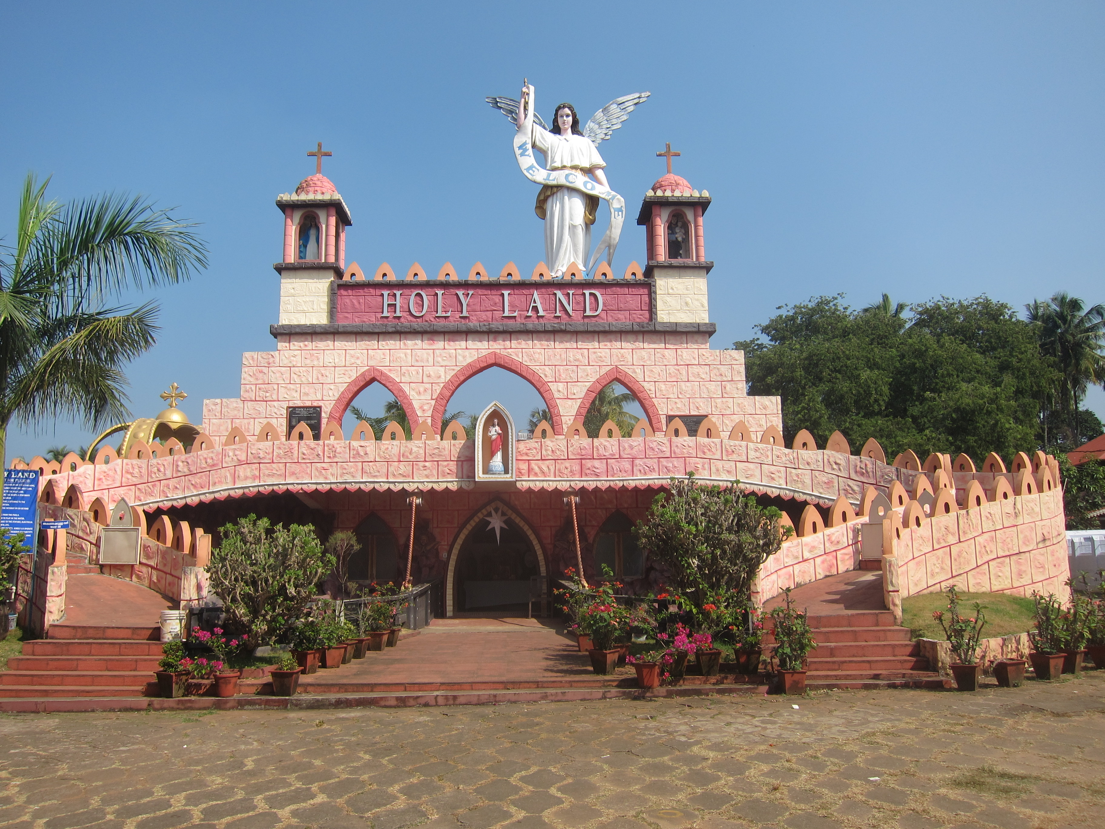 ഹോളി ലാൻഡ് എന്ന പേരിൽ ഇവിടെ ഒരു ബൈബിൾ ഗ്രാമമുണ്ട്... St. Mary’s Forane Church, Chalakudy , Thrissur സെന്റ് മേരീസ് ഫൊറോന പള്ളി, ചാലക്കുടി , തൃശ്ശൂർ ഇരിങ്ങാലക്കുട രൂപത, തൃശ്ശൂർ അതിരൂപത റോമൻകാത്തലിക് സീറോമലബാർ ചാലക്കുടിഫൊറോനപള്ളി